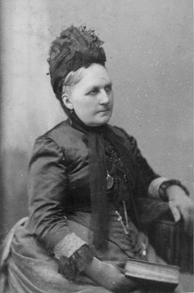 Nicoline "Line" Christine Luplau, née Monrad (1823-1891), Danish women's rights activist